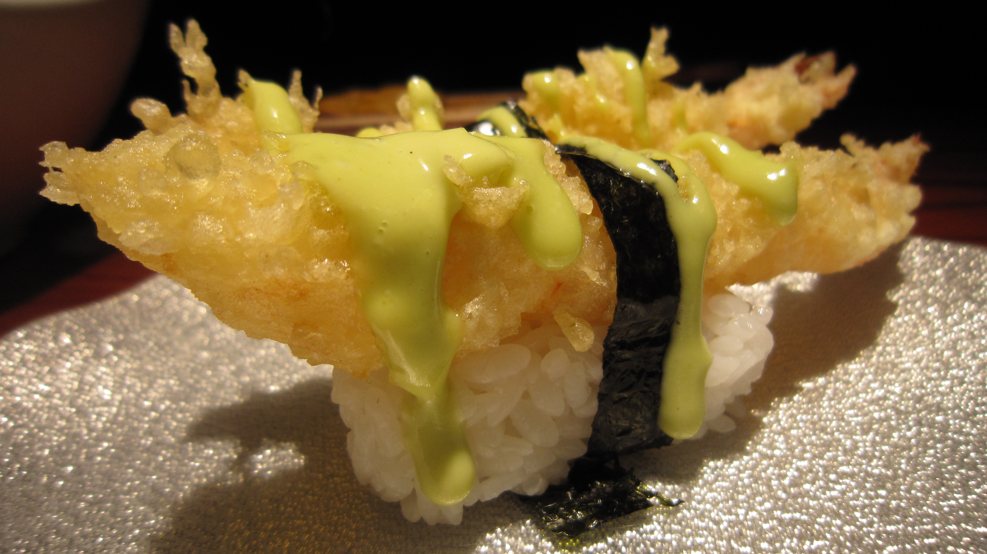 Sushi with fried prawn